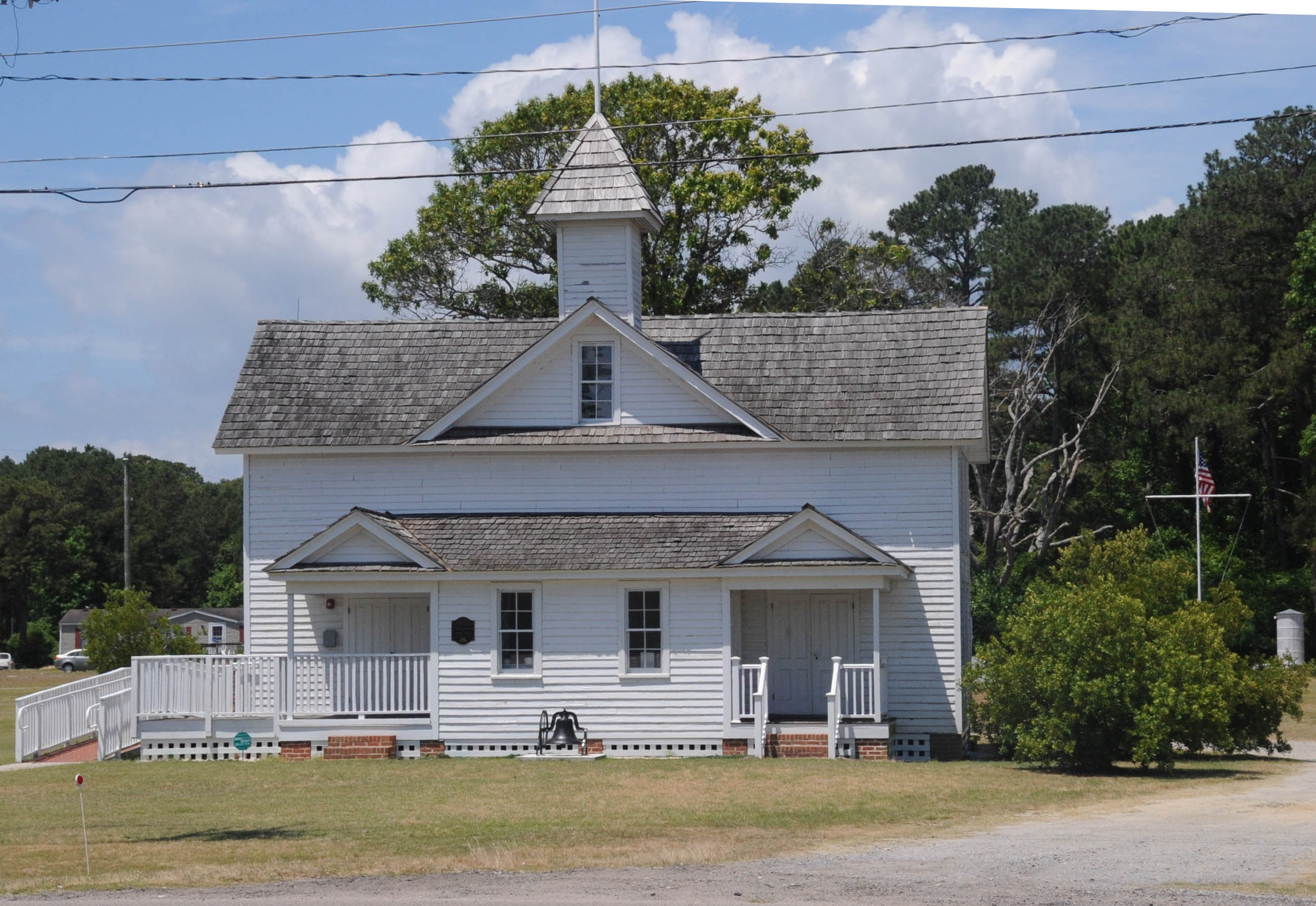 BUILT IN 1868 AS A ONE ROOM SCHOOL ON LAND DONATED BY WILLIAM HUNT, SR, AN EDUCATED AFRICAN AMERICAN FARMER. . IT WAS EXPANDED IN 1911 TO A TWO ROOM BUILDNG. IT CLOSED IN 1950 AND IS NOW A MUSEUM